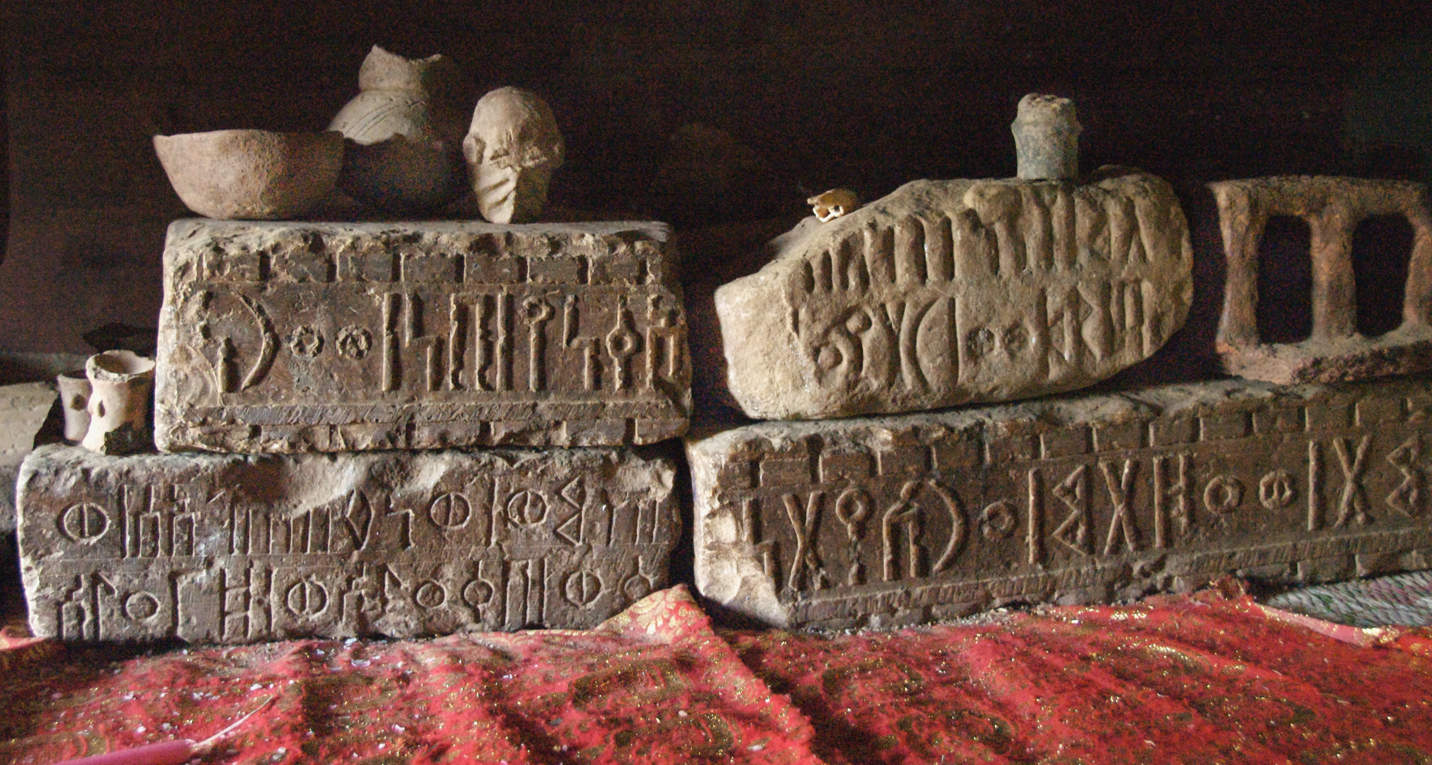 The Iqa-bet, a two-story stone storage building next to the Church of Abba Afse in Yeha, Tigray Region, northern Ethiopia, houses ancient artifacts as well as Ethiopian Orthodox Christian religious objects. This photo shows blocks bearing inscriptions in Sabaean language. I don't know whether all the blocks are stone or whether some are stone and others are fired clay. Arranged atop the blocks are other ancient artifacts that were no doubt found nearby and brought to the Iqa-bet for safekeeping and display. The one on the far right, with two vertical holes, looks like a piece of engineered masonry. According to Wikipedia: "The Sabaean (or, to be more exact, rather Sabaic) languagewas an Old South Arabian language spoken in Yemen from c. 1000 BC to the 6th century AD, by the Sabaeans; it was used as a written language by some other peoples . . . It was written in the South Arabian alphabet." Wikipedia also states: "The Sabaeans (Arabic: السبأيين) were an ancient people speaking an Old South Arabian language who lived in what is today Yemen, in south west Arabian Peninsula; from 2000 BC to the 8th century BC. Some Sabaeans also lived in D'mt, located in northern Ethiopia and Eritrea, due to their hegemony over the Red Sea." This explains the presence of Sabaean inscriptions in Yeha, Ethiopia. There is disagreement on Yeha's role and significance during the D'mt Kingdom in what is now northern Ethiopia and Eritrea. However, it is certain Yeha, with its imposing Temple of the Moon, was an important center in the D'mt Kingdom 2,500 years ago. I wish I knew what these inscriptions say. Anyone?